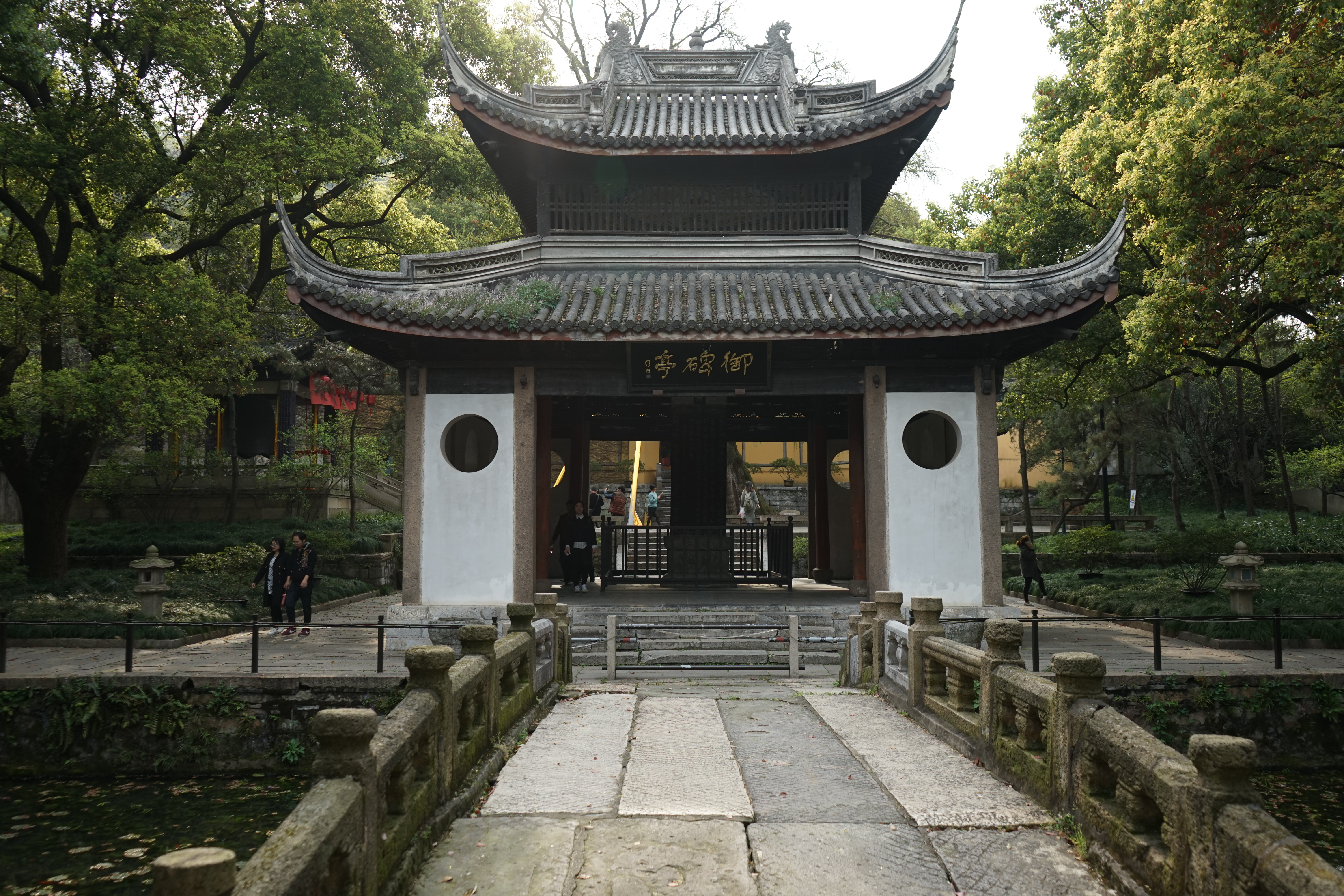 Jinlian Bridge, Imperial Stele Pavilion behind it.